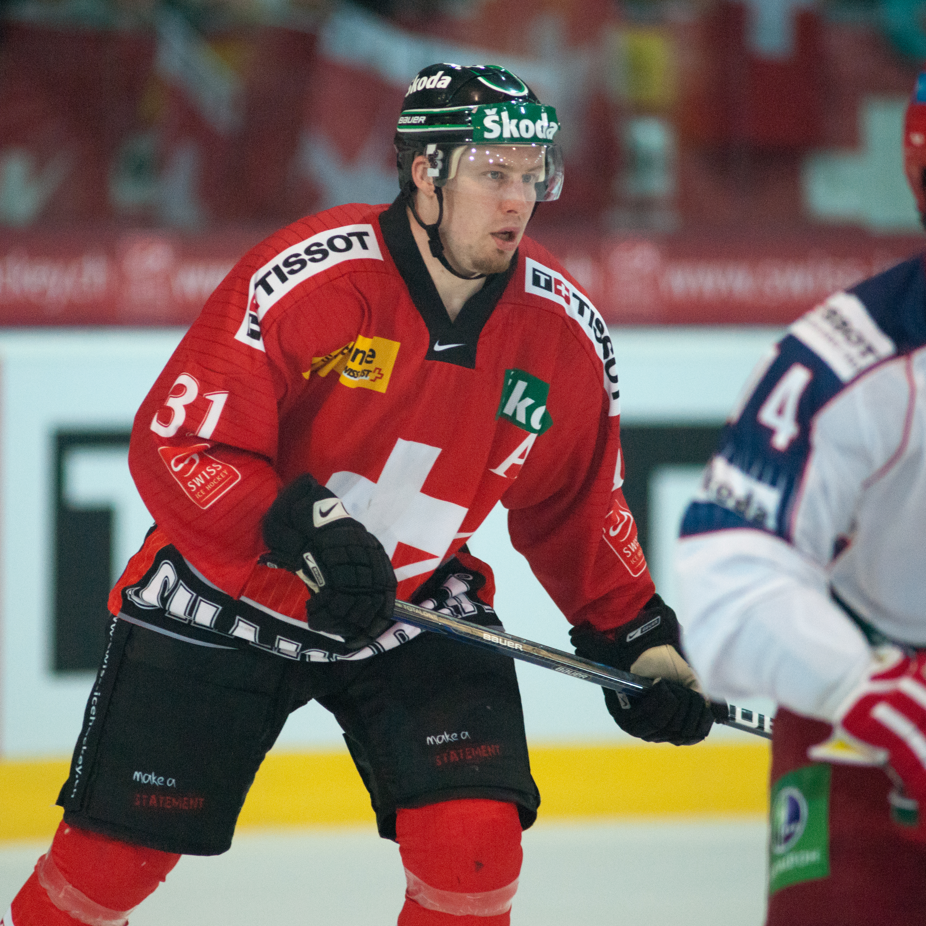 The making of this document was supported by Wikimedia CH. (Submit your project!) For all the files concerned, please see the category Supported by Wikimedia CH. Switzerland vs. Russia, 8th April 2011